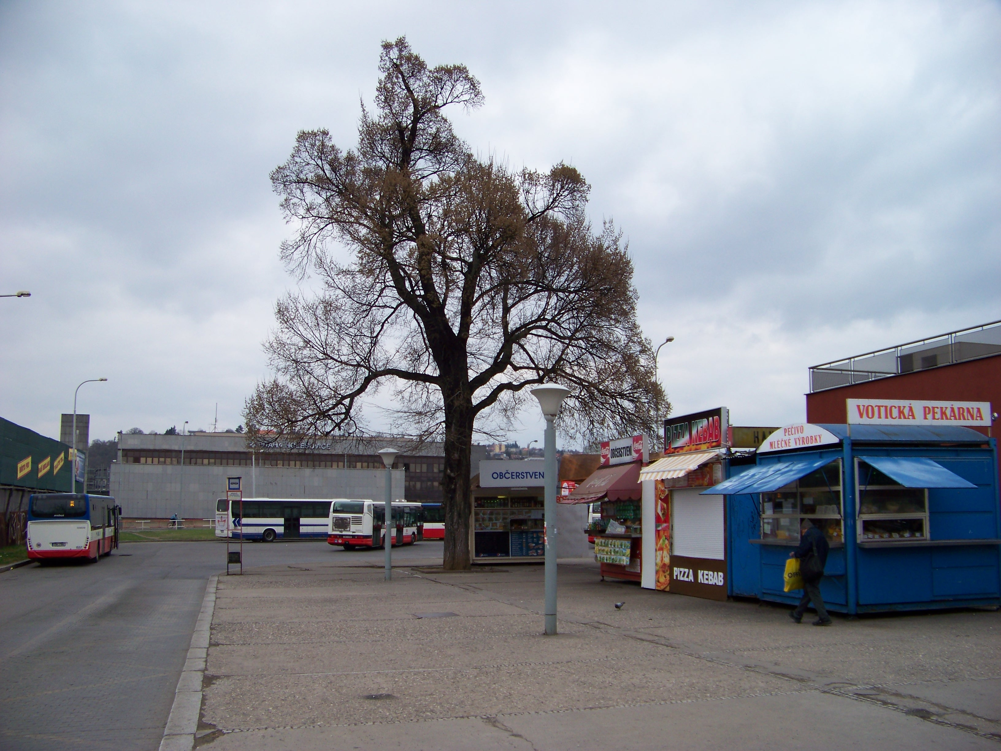 Prague-Holešovice, Czech Republic. Bus stop Nádraží Holešovice.